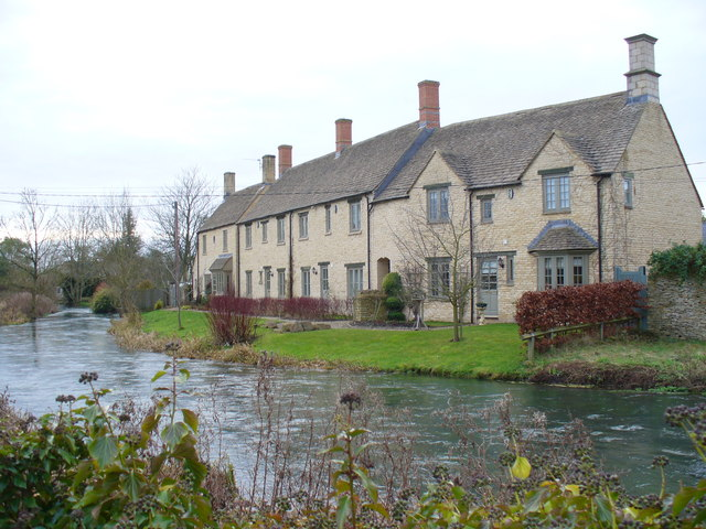 River Coln Seen from Fairford's Town Bridge - modern Cotswold stone houses lining the Coln.